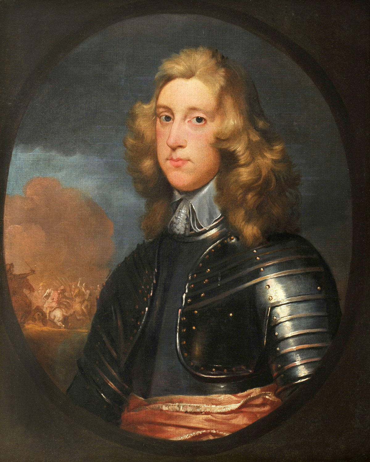 Portrait of Henry Herbert, 4th Baron Herbert of Chirbury as a young man in armour